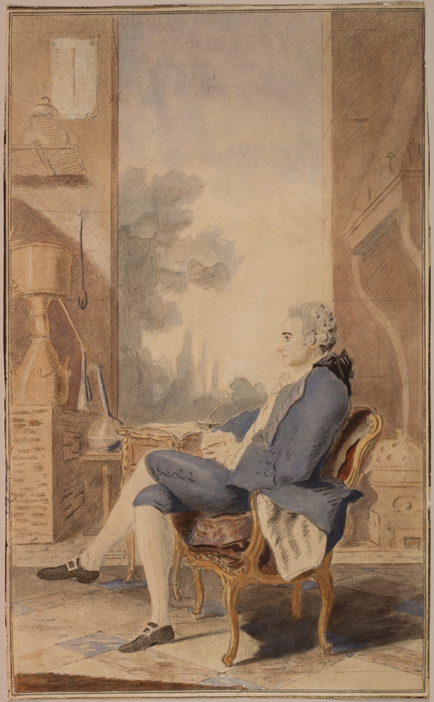 Portrait of Louis-Léon-Félicité de Brancas, 3rd duc de Lauraguais seated in his study, with chemical apparatus in front of him. By Louis de Carmontelle (French, 1717–1806)